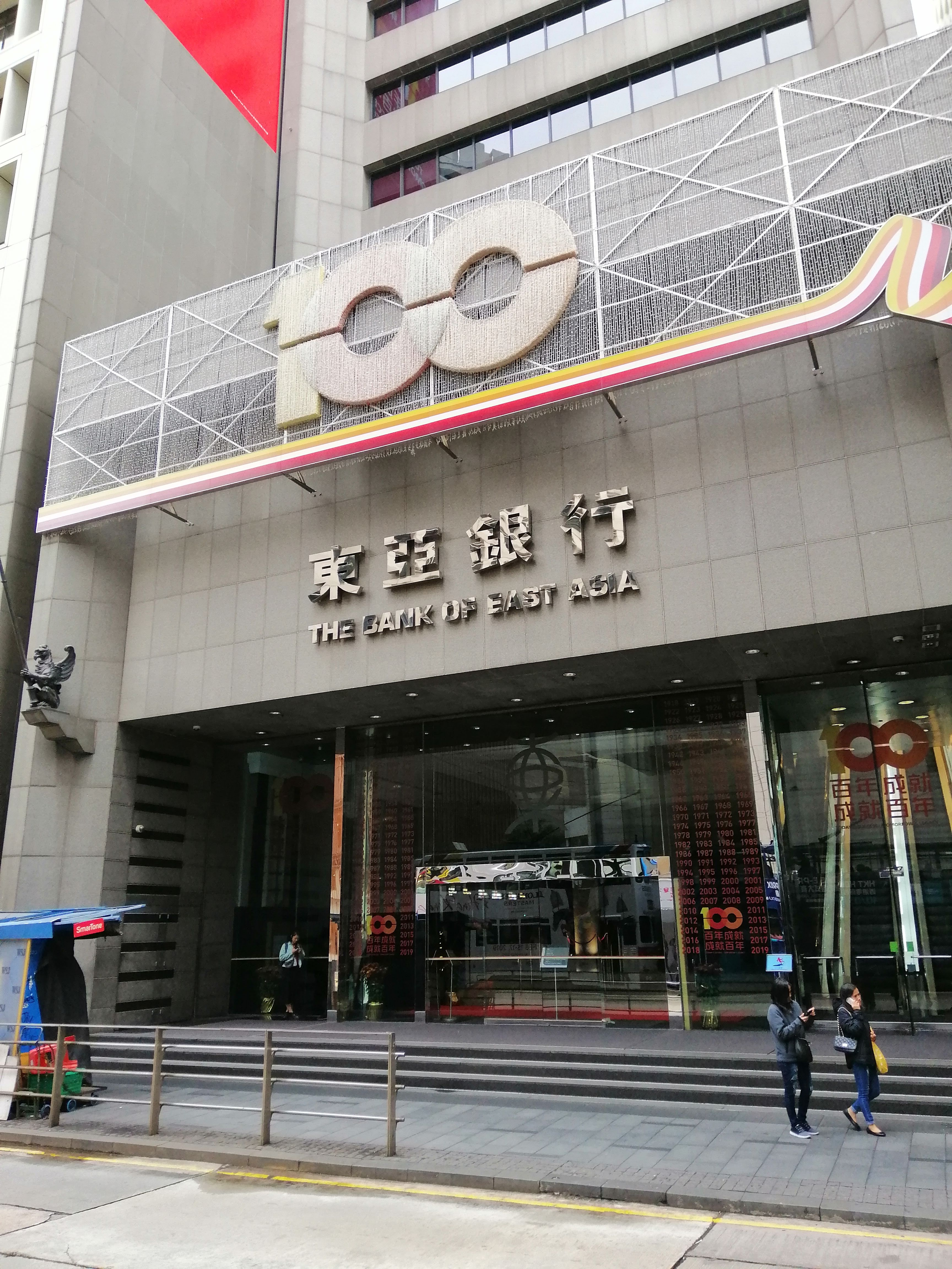 Bank of East Asia Entrance